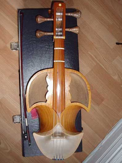 Picture of ghaychak (taken by me)